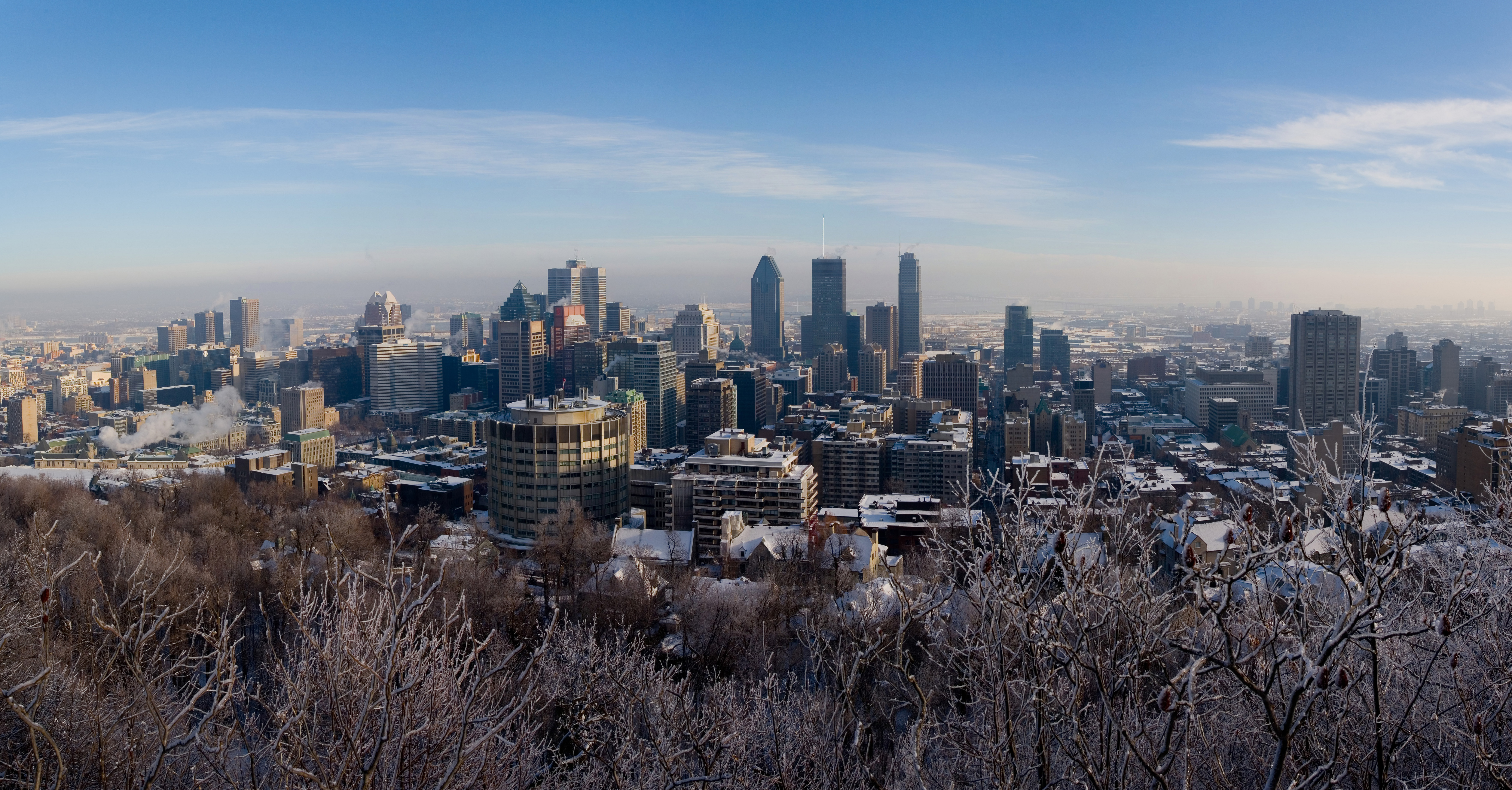 A panorama of the Montreal Skyline in winter as viewed from the Chalet du Mont Royal at the top of Mount Royal.